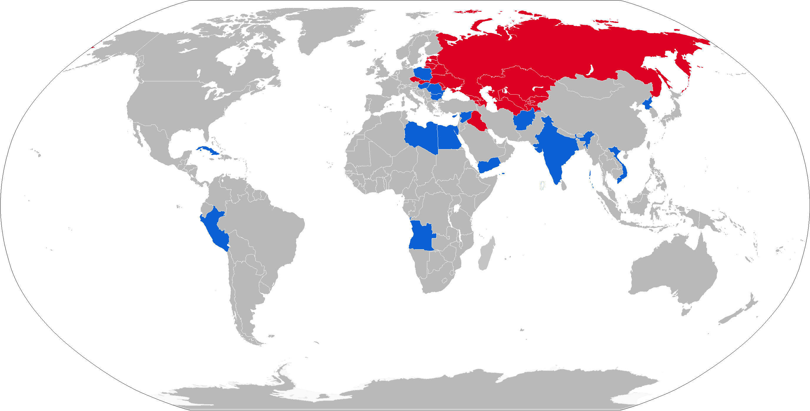 Map with 9M17 operators in blue and former operators in red